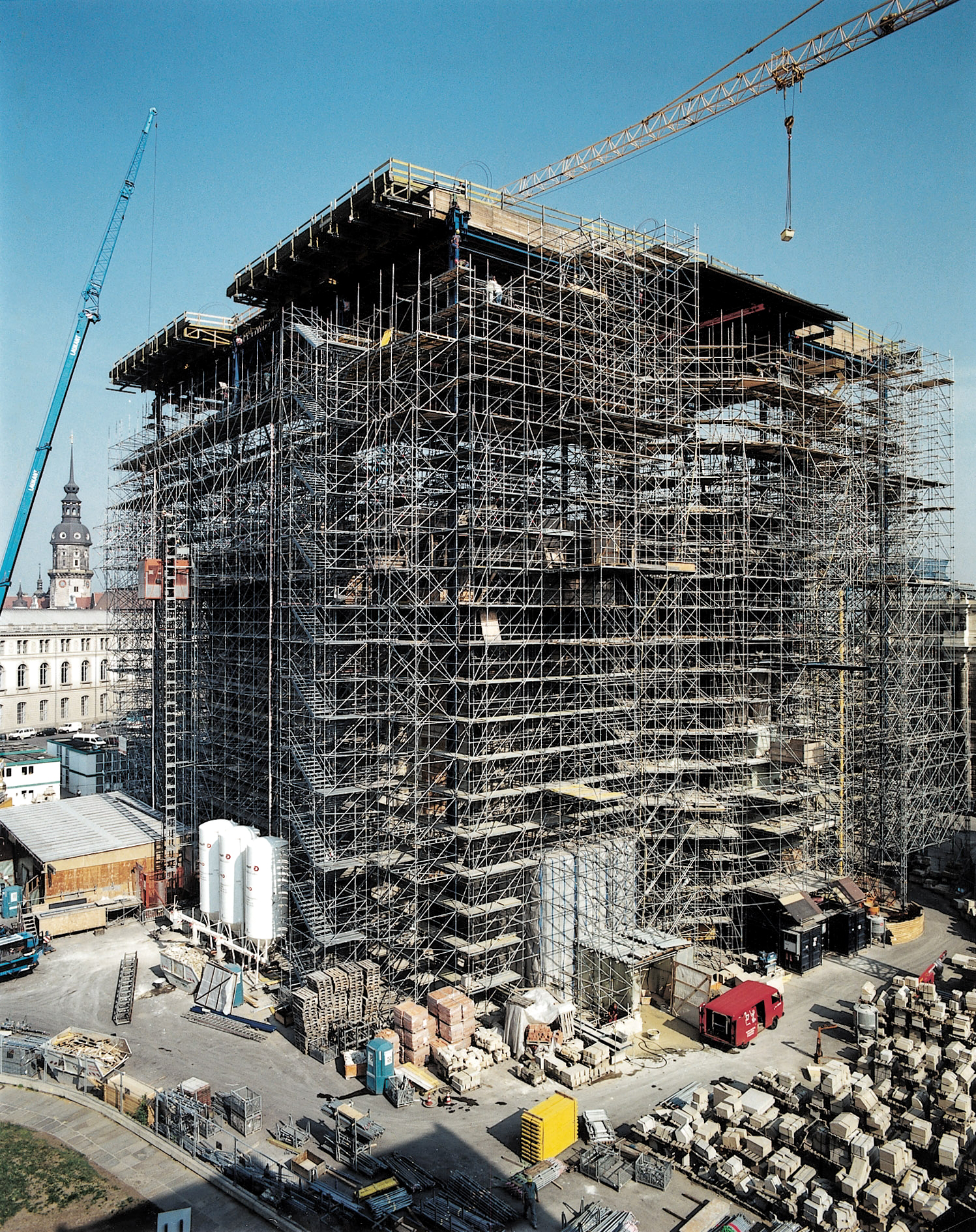 Reconstruction of the Frauenkirche in Dresden, Germany